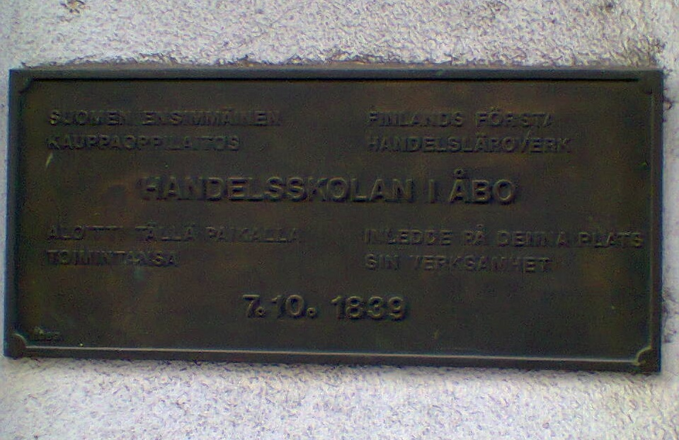 Commemorative plaque for the foundin of Turku commercial school in 1839. Humalistonkatu 7, Turku, Finland.